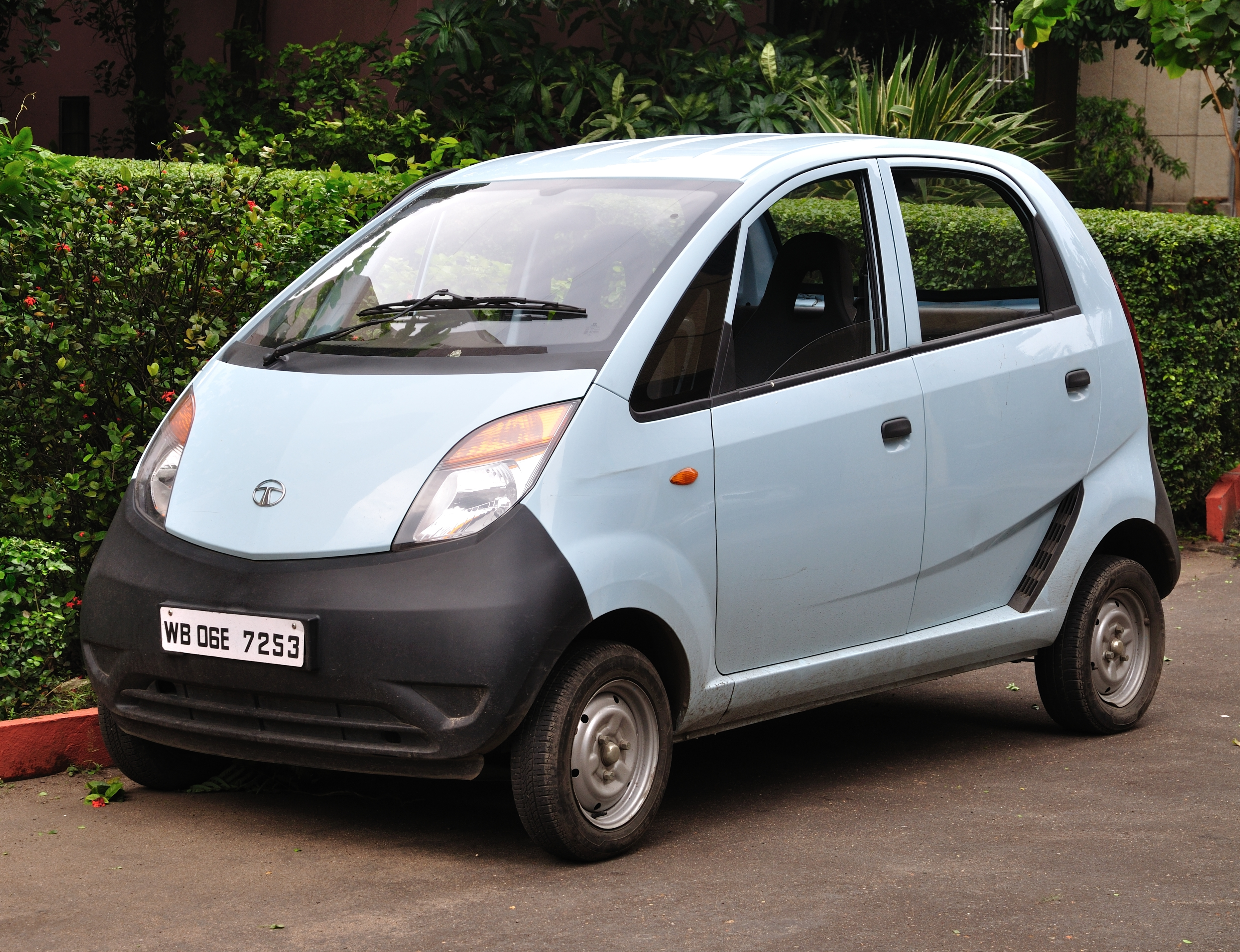 Car. This media file is uploaded with India loves Wikipedia event.